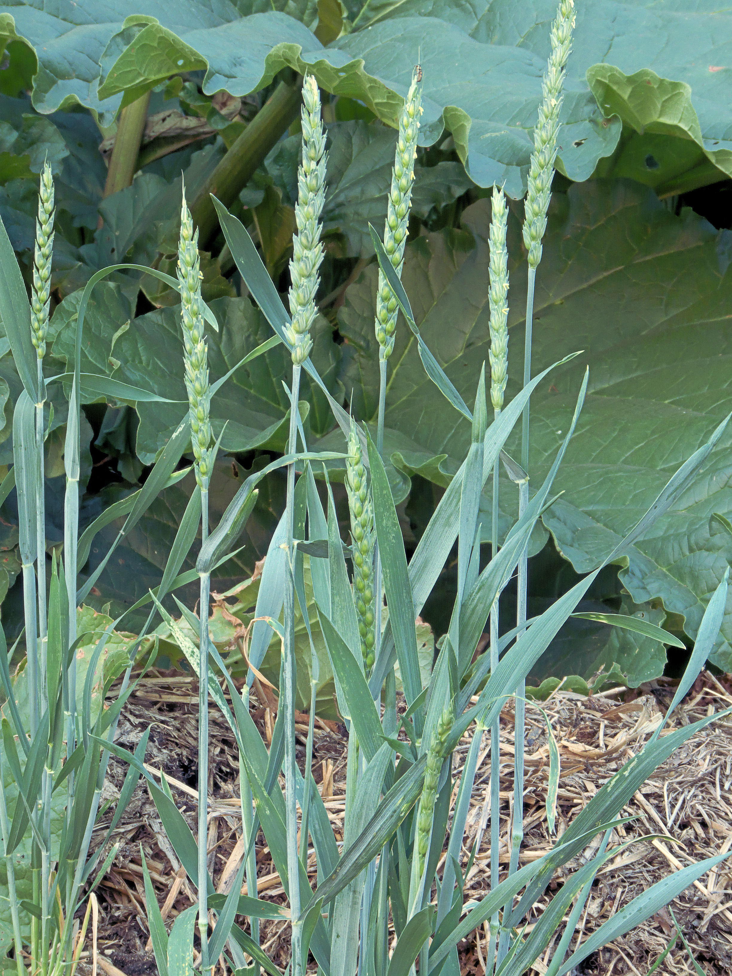 Triticum aestivum spring wheat